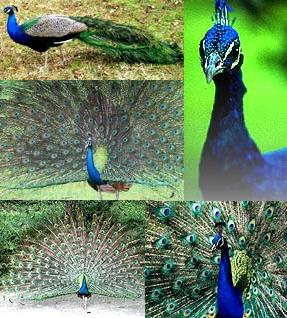 Peacock sanctuary Bankapura Nagareswara temple Source and Author : Karnataka(North). India